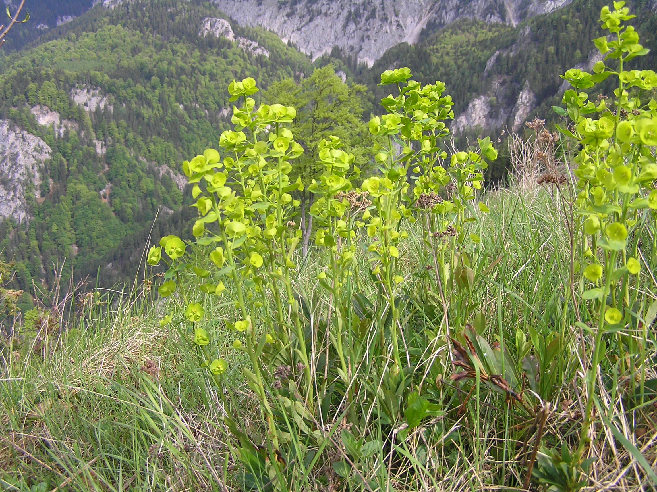 Euphorbia amygdaloides, Austria, Alps, the mountain Schneeberg near Wiener Neustadt